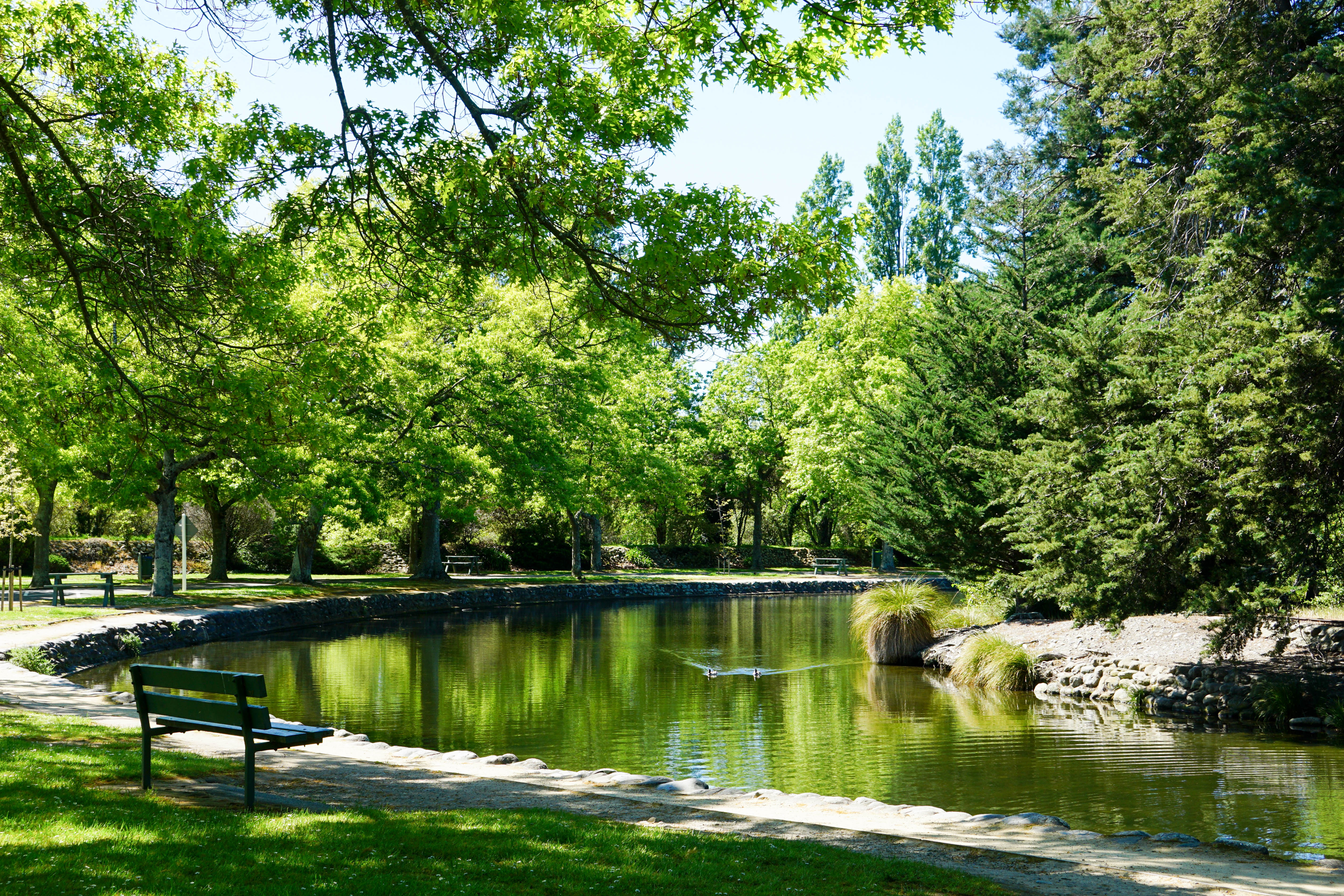 Queen Elizabeth Park Lake of Remembrance